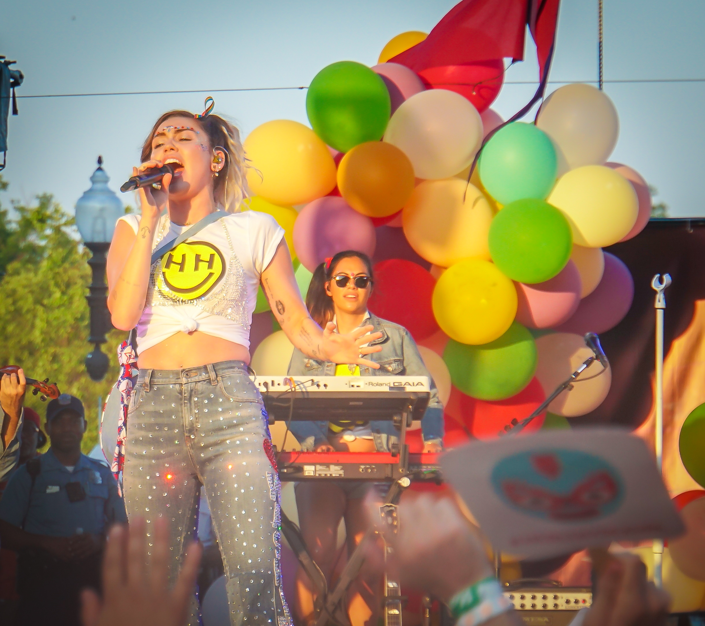 Capital Pride Festival 2017, featuring the Pointer Sisters and Miley Cyrus. Kaiser Permanente is a Platinum Sponsor of Capital Pride and Capital TransPride As Washington, DC goes, so goes the nation, in the most inclusive city in the world.